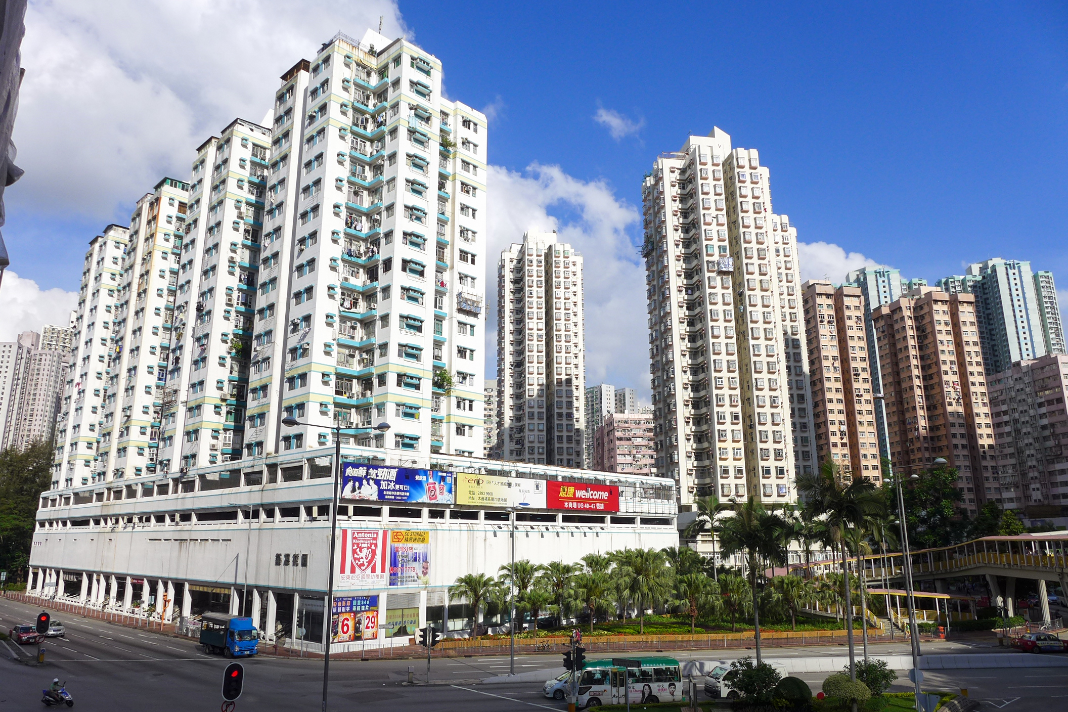 Tsuen Wan Residential Buildings